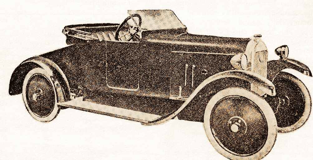 1922 Rob Roy